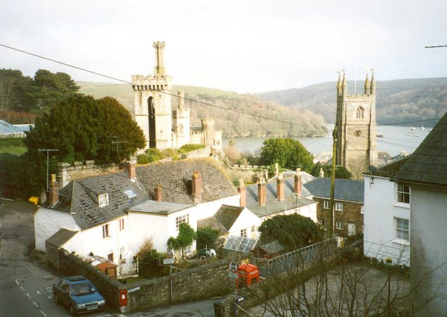 Place, Place Road, Fowey Originally built in 1260, when it was owned by the Boniface family (lords of the manor). Acquired by the Treffrey family by marriage in 1326. Rebuilt in the 15C. Additions by Joseph T Treffrey, an energetic industrial developer, between 1813 and 1845 leave little of the old house untouched, and include a tall 19C granite tower. There is an early 16C bay window, of two stories, in the courtyard. The Porphyry Hall of 1841-3, above the library, is a showpiece. The house is still (1970) occupied by the family and is not open to the public.